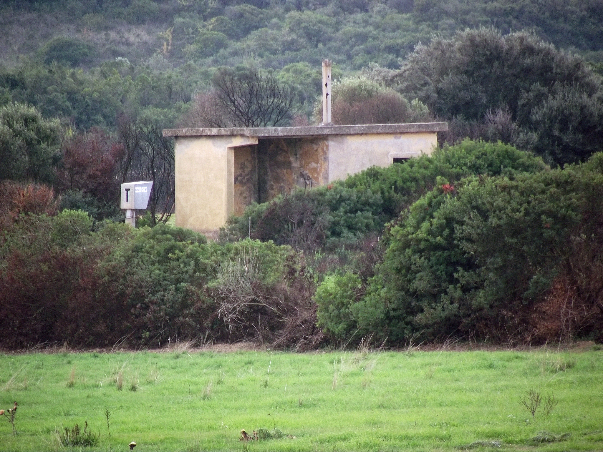 The former Monte Arcau station, along the Villamassargia-Carbonia railway, in Sardinia, Italy